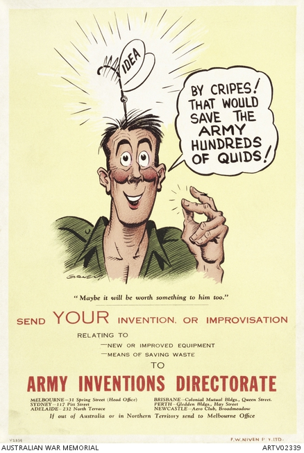 Australian Second World War poster. The top half of the poster features a cartoon by Alex Gurney of an Australian soldier having a bright idea. The title for the poster is written into the soldiers' speech bubble and the caricature representing the idea popping out of the soldiers head is a mosquito instead of a light bulb. The poster is designed to encourage people to come up with ideas on saving waste or to think of new inventions for equipment. The lower half of the poster is all text directing people where to send their ideas in each state capital. Alex Gurney was a cartoonist, most famous in the Second World War for his comic strip 'Bluey and Curley', first published in the Melbourne Sun, in February 1941.